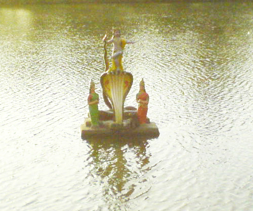 శివదేవుని చిక్కాల దేవుని చెరువులో కల తాండవ కృష్ణుని విగ్రహం